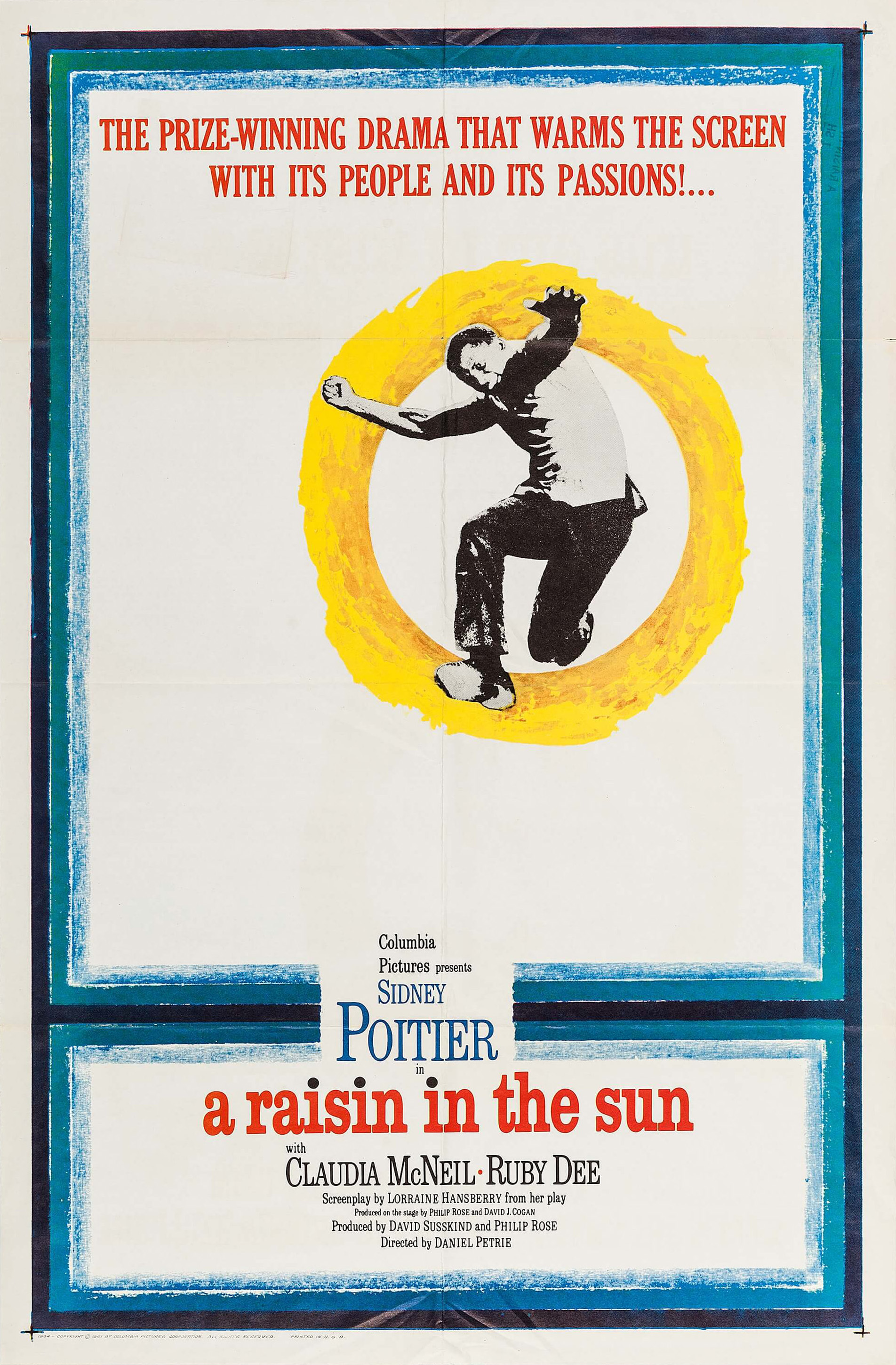 Theatrical release poster for the 1961 film A Raisin in the Sun (1961 film), an adaptation of the 1959 play of the same name.